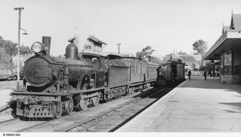 Passenger train No. 131 at Murray Bridge, 5 March 1951